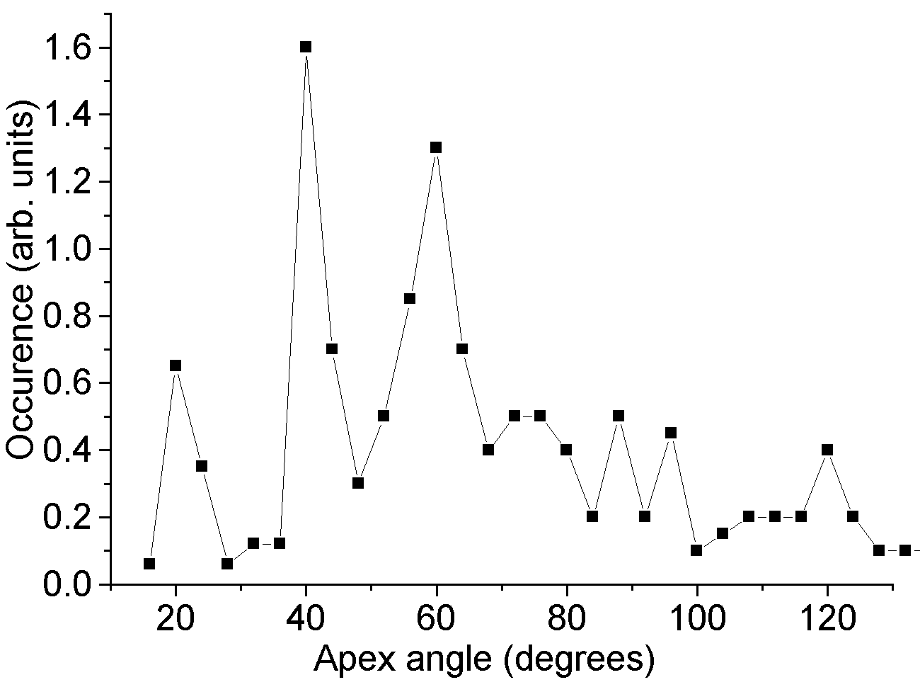 Statistical distribution of the apex values measured over 1700 nanocones. Data from (1997). Nature 388 (6641): 451–454.